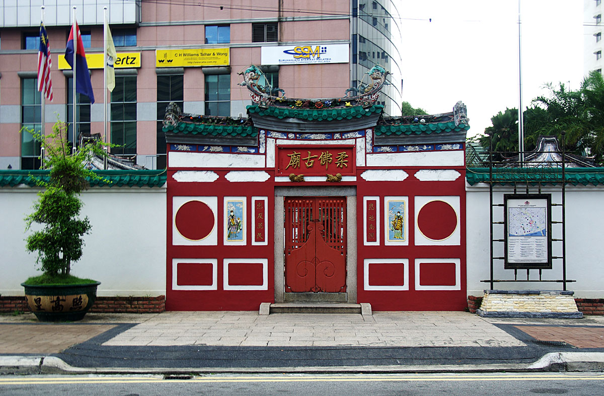 Chinese Temple in Johor Bahru